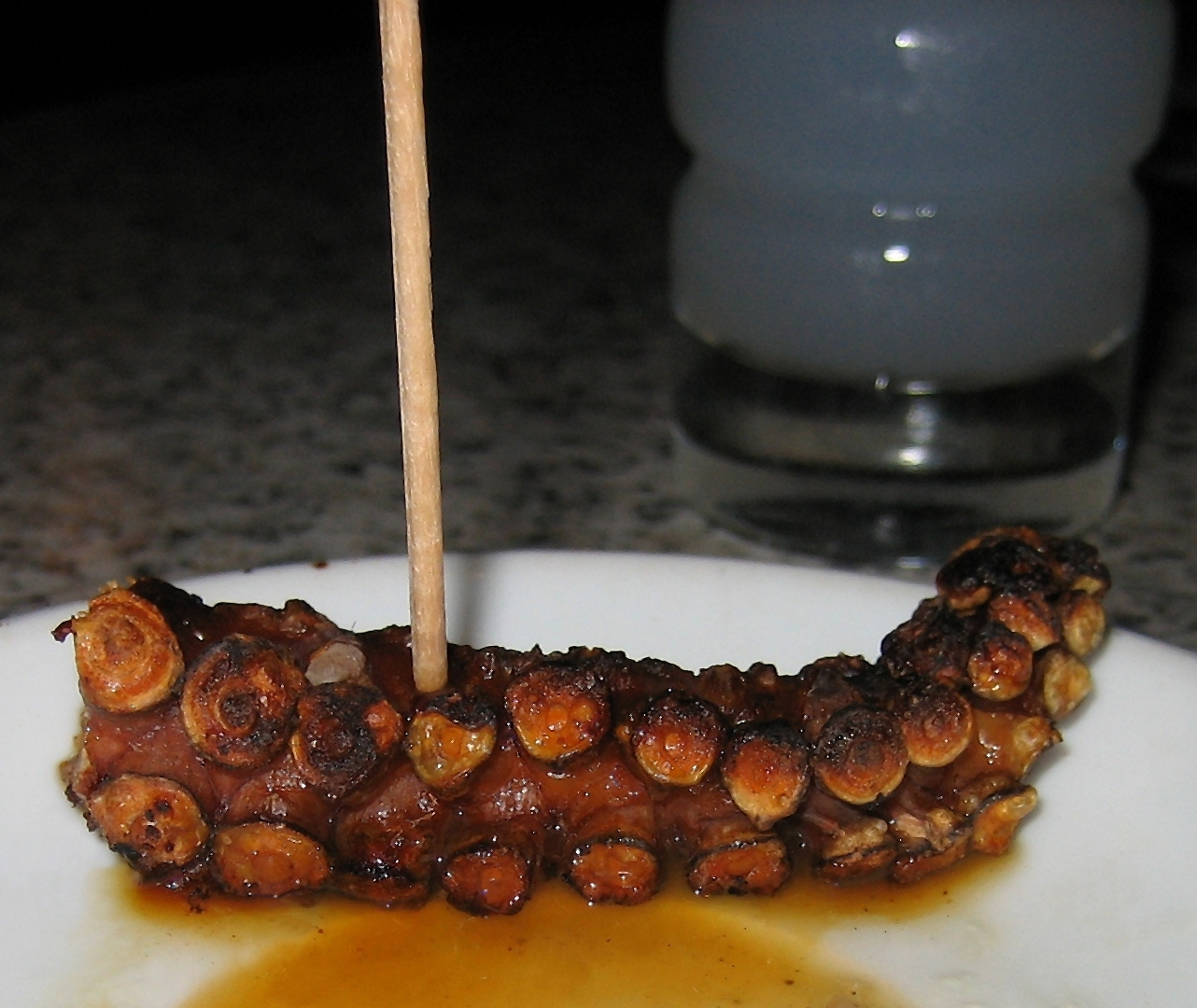 Greek aperitif, Ouzo and grilled octopus